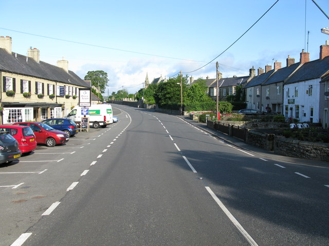 Otterburn Looking west along the A696 as it passes through Otterburn. The Percy Arms Hotel is on the left.